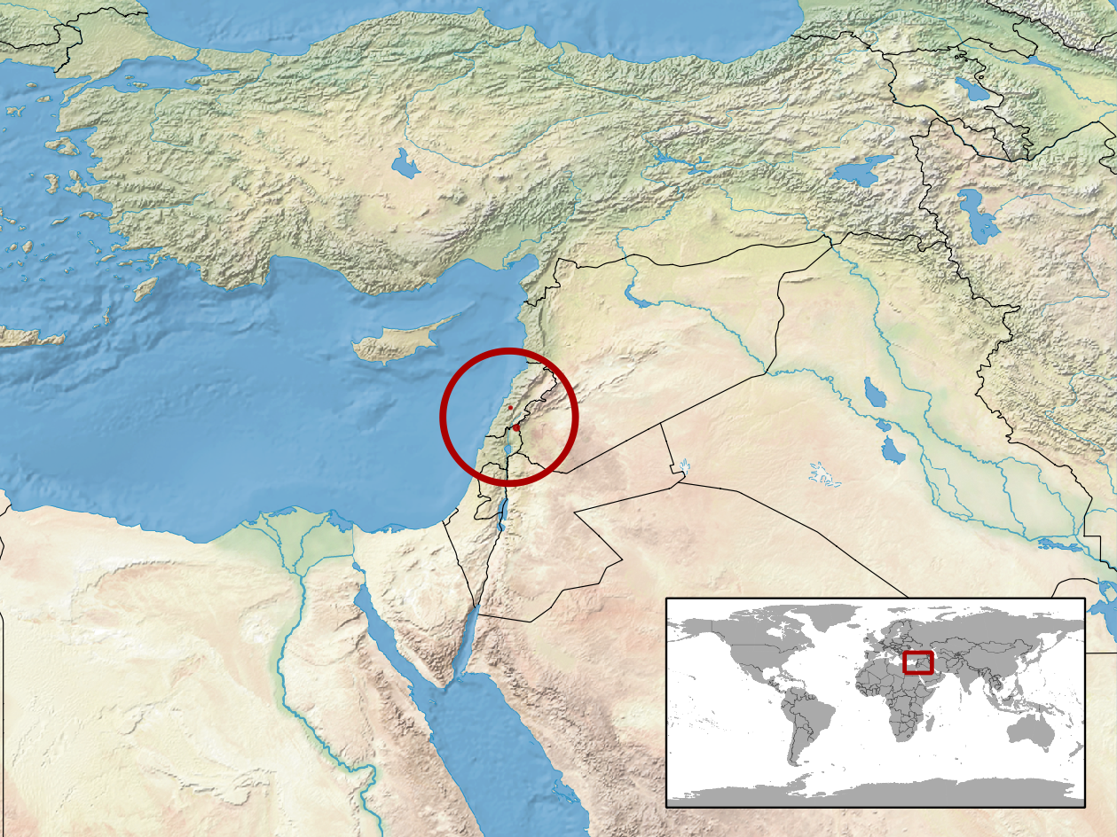 geographic distribution of Mediodactylus amictophole syn. Cyrtopodion amictophole (Native: Lebanon; Syrian Arab Republic)